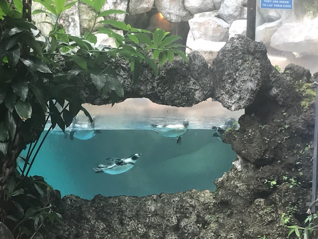 Humboldt penguin at Taman Safari Indonesia Bogor